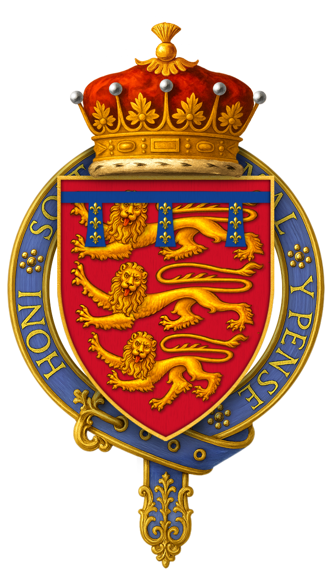 Coat of Arms of Henry of Grosmont, 4th Earl of Lancaster, KG “ England, with a label (five or three points) of France ” BOUTELL, Charles, Heraldry: Historical and Popular, London: Windsor & Newton, 1863. Print.